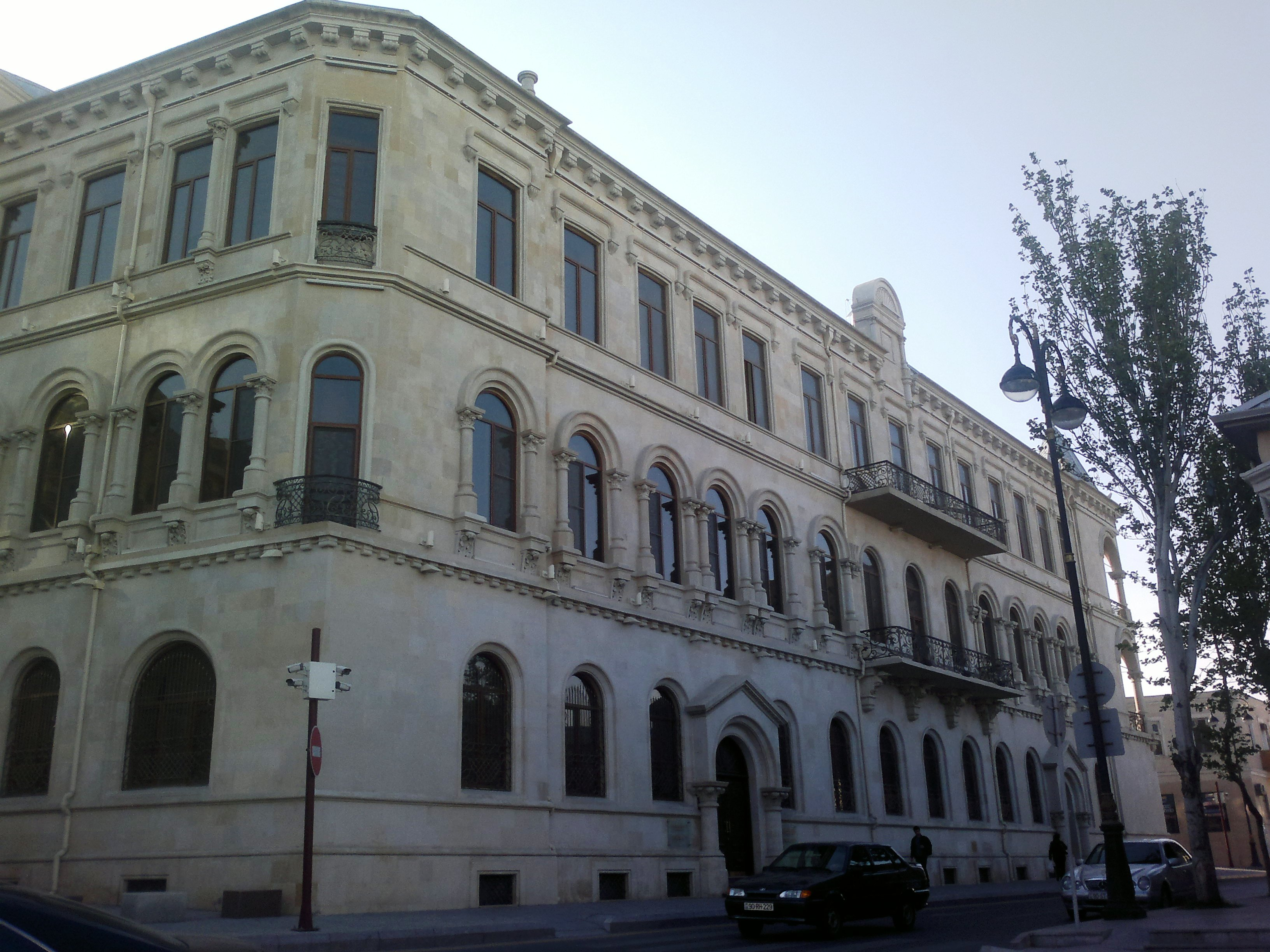 The building of the History Museum of Baku Procuracy. Built in 1897—1899 by Kaizmir Skurevich.